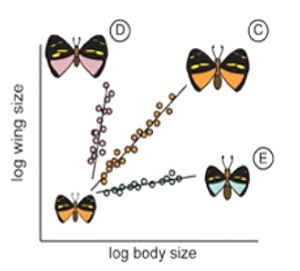 size butterfly 2